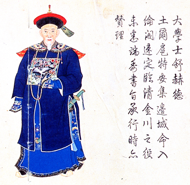 Shuhote (舒赫德 shu he de), an officer of the Qing Army during Qianlong's era.